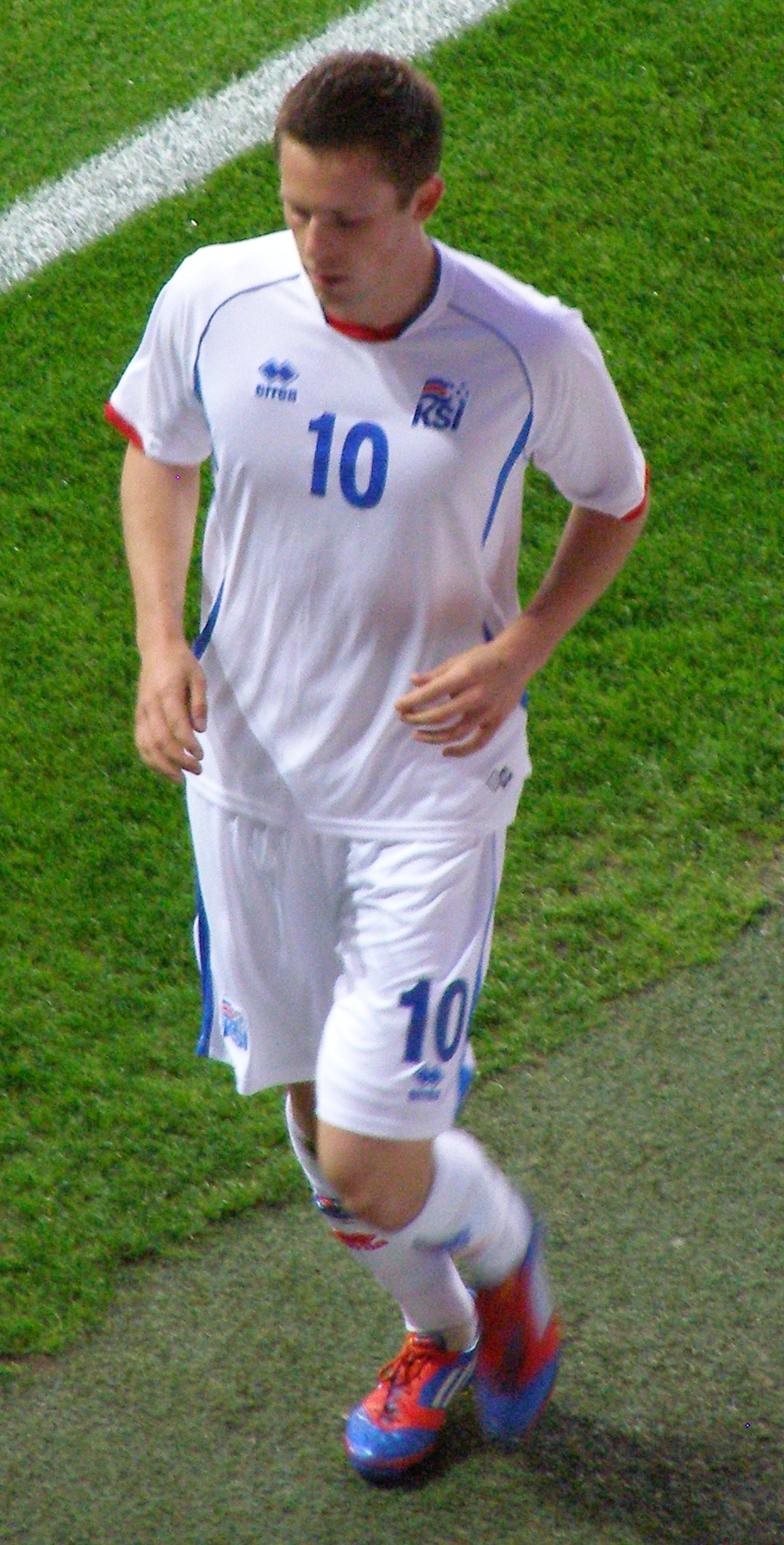 Gothenburg - Gamla Ullevi - Sweden-Iceland - Gylfi Sigurðsson